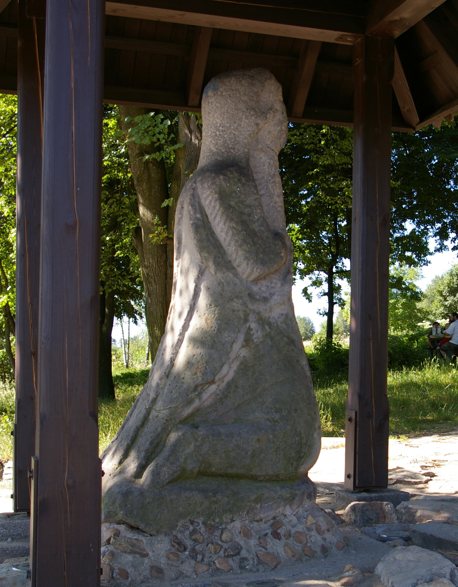 The Stone Pilgrim in Nowa Słupia, Poland